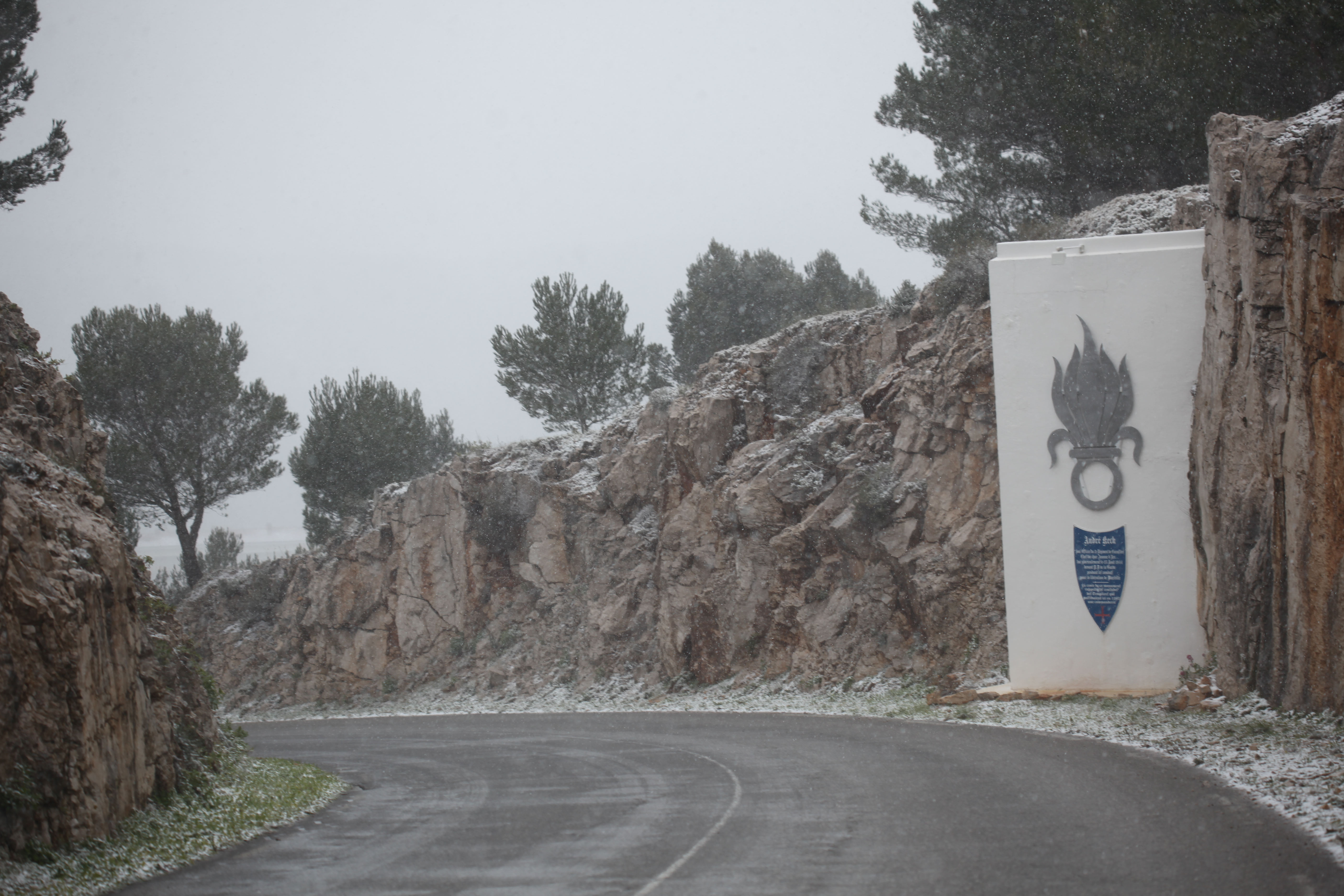 Mur MDL KECK - Entrée du camp de Carpiagne